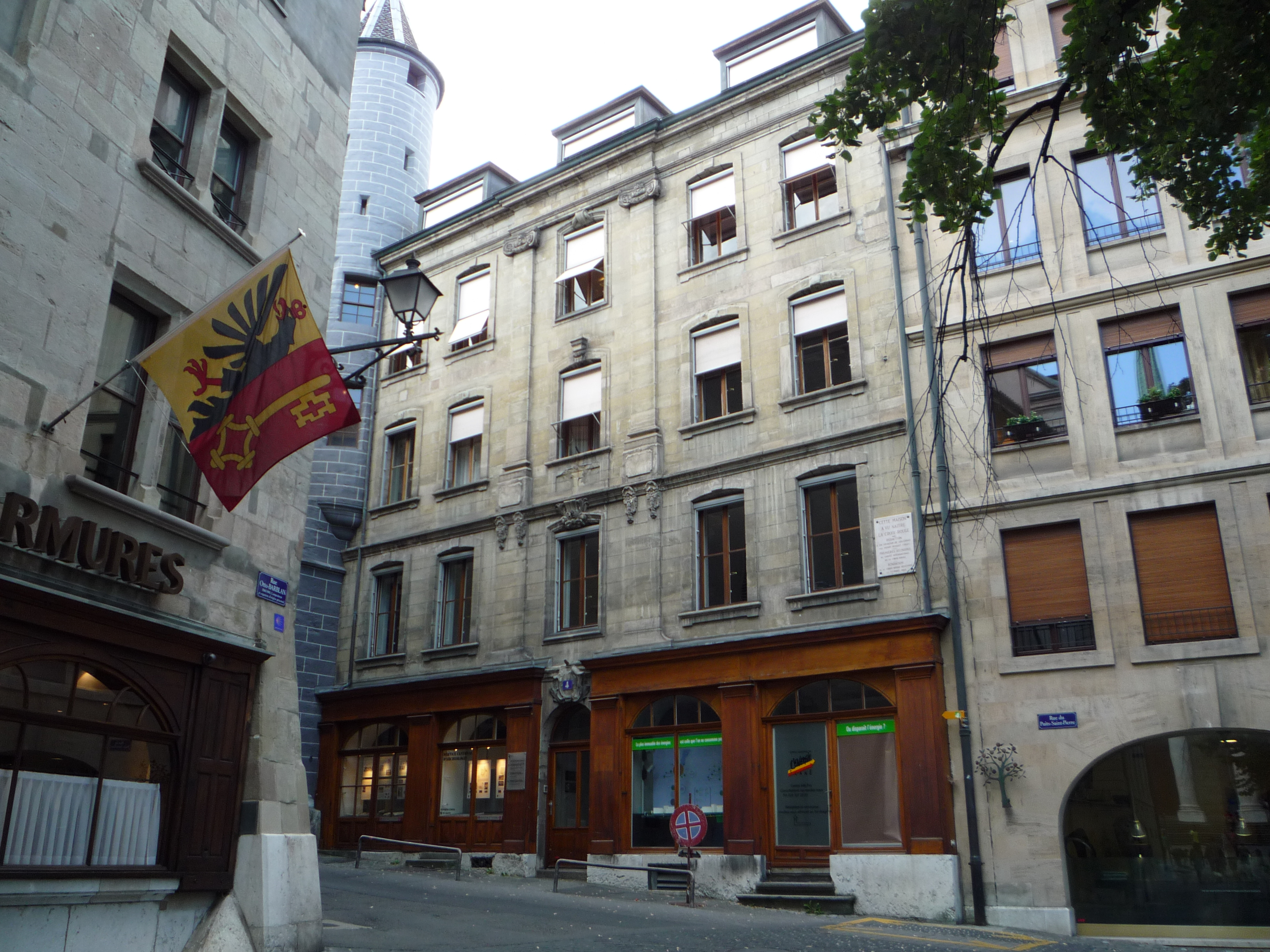 It is in this building, in the Rue du Puits-St-Pierre 4 in Geneva, 3rd floor, Henri Dunant lived during the creation of the International Committee of the Red Cross. This is where he wrote his book "A Memory of Solferino", and had its first meeting on the idea of ​​bringing assistance to injured wars, later, in other places, saw the creation of international Committee of the Red Cross. However, the Geneva section of the Red Cross was founded in this building, on 17 March 1864.